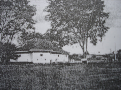 Sibu Fort was constructed by the Brooke administration at 1862 in order to defend themselves from the attack of Dayak people. It was later demolished in 1936.